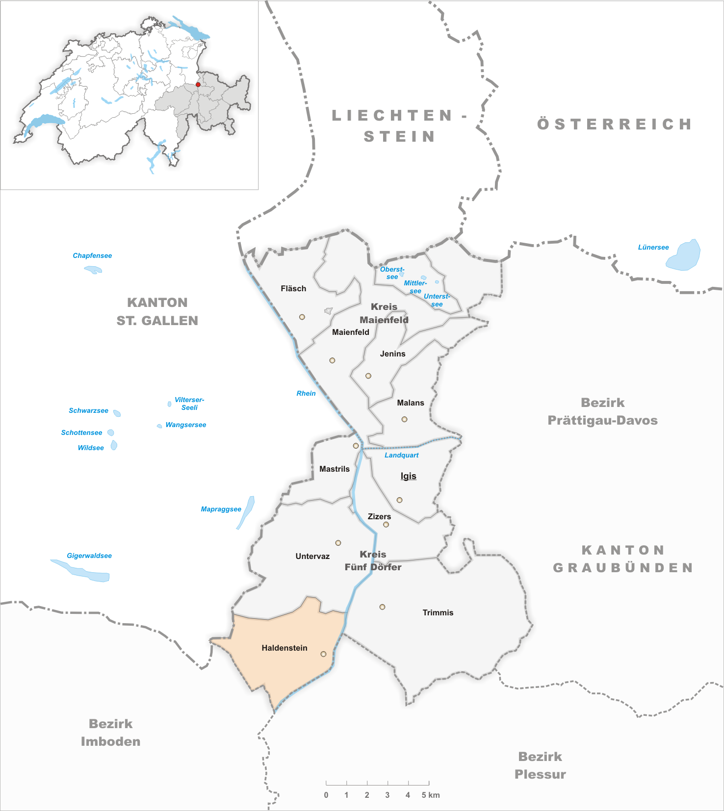 Municipality Haldenstein